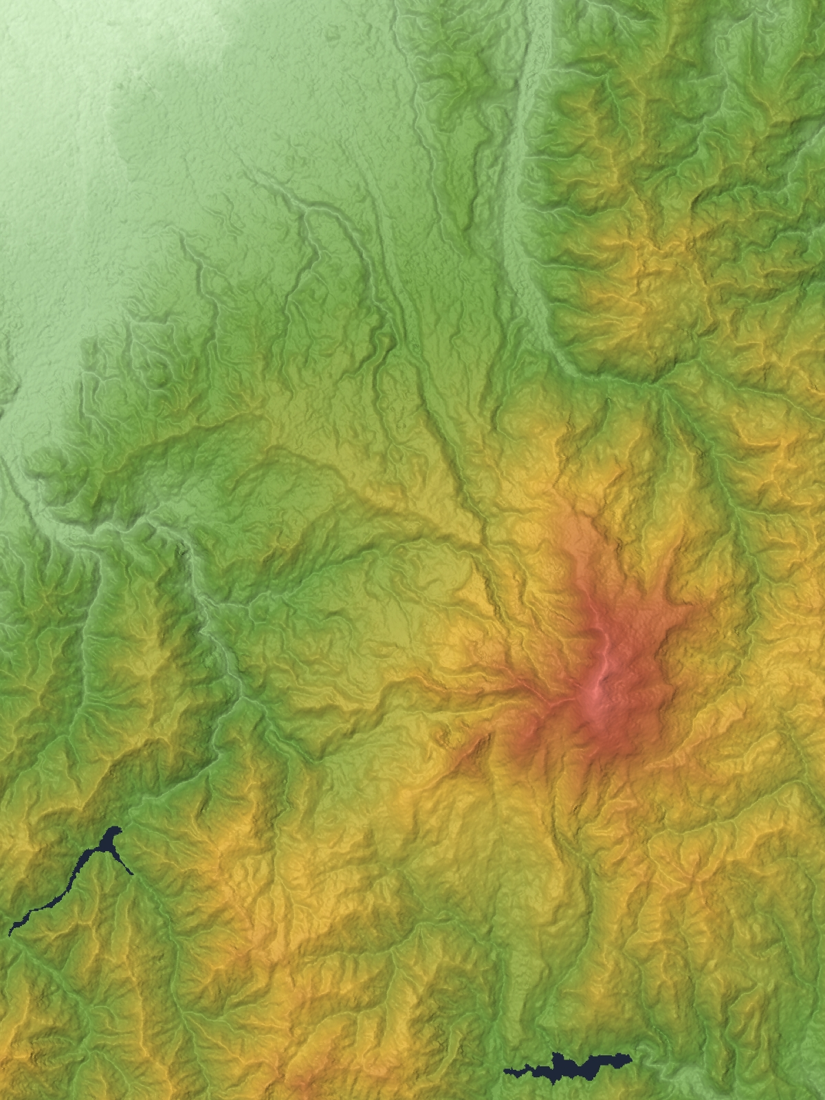 Gassan ia a volcano in Yamagata Prefecture, Honshu, Japan.